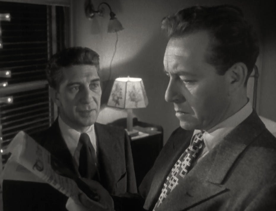 Eduard Franz (left) & Paul Henreid in Hollow Triumph (aka The Scar, UK title) - cropped screenshot